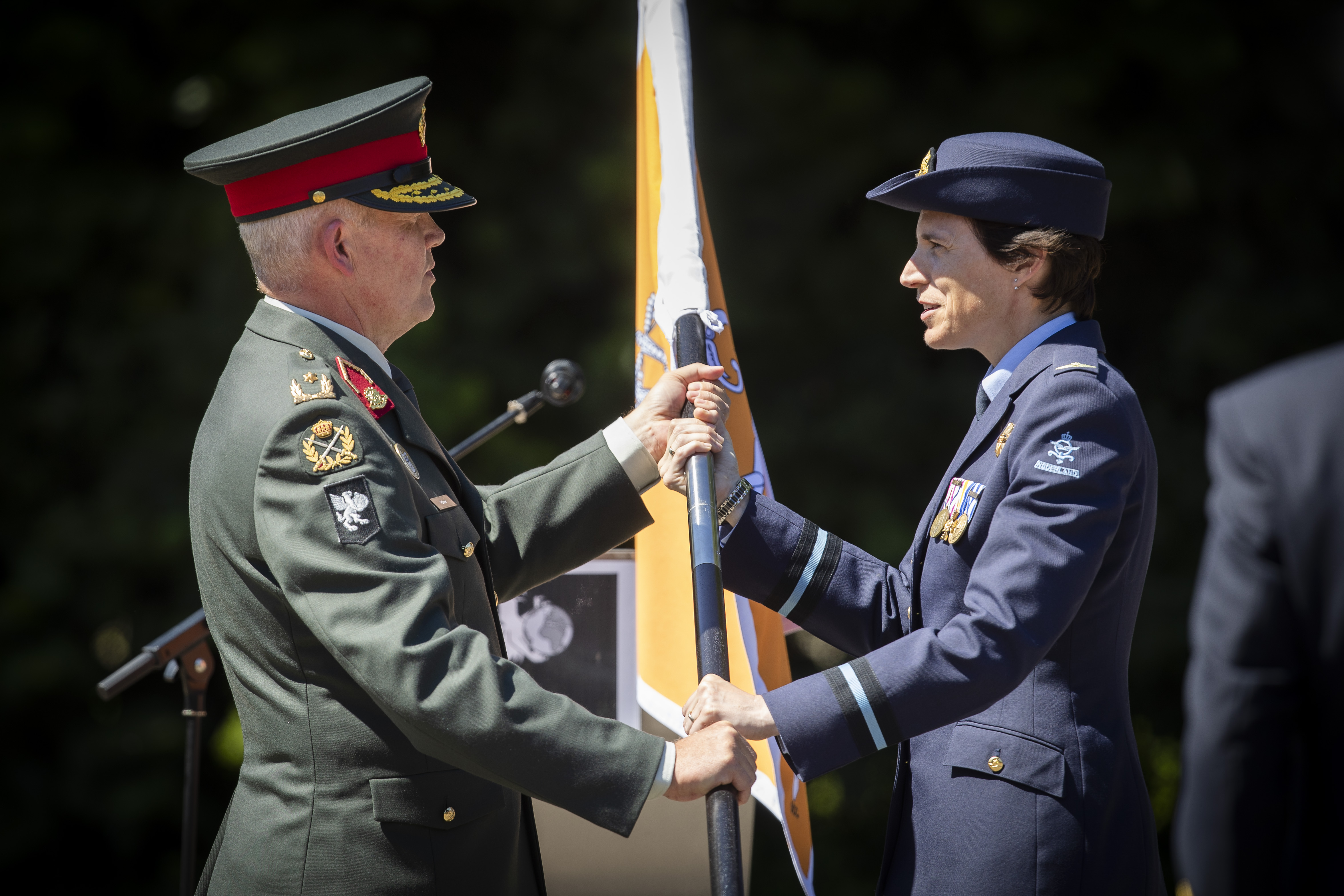 Brigadier General Hans Folmer tranfers the command of the Defensie Cyber Commando (Cyber command of the Dutch military) to Commodore Elanor Boekholt-O'Sullivan.